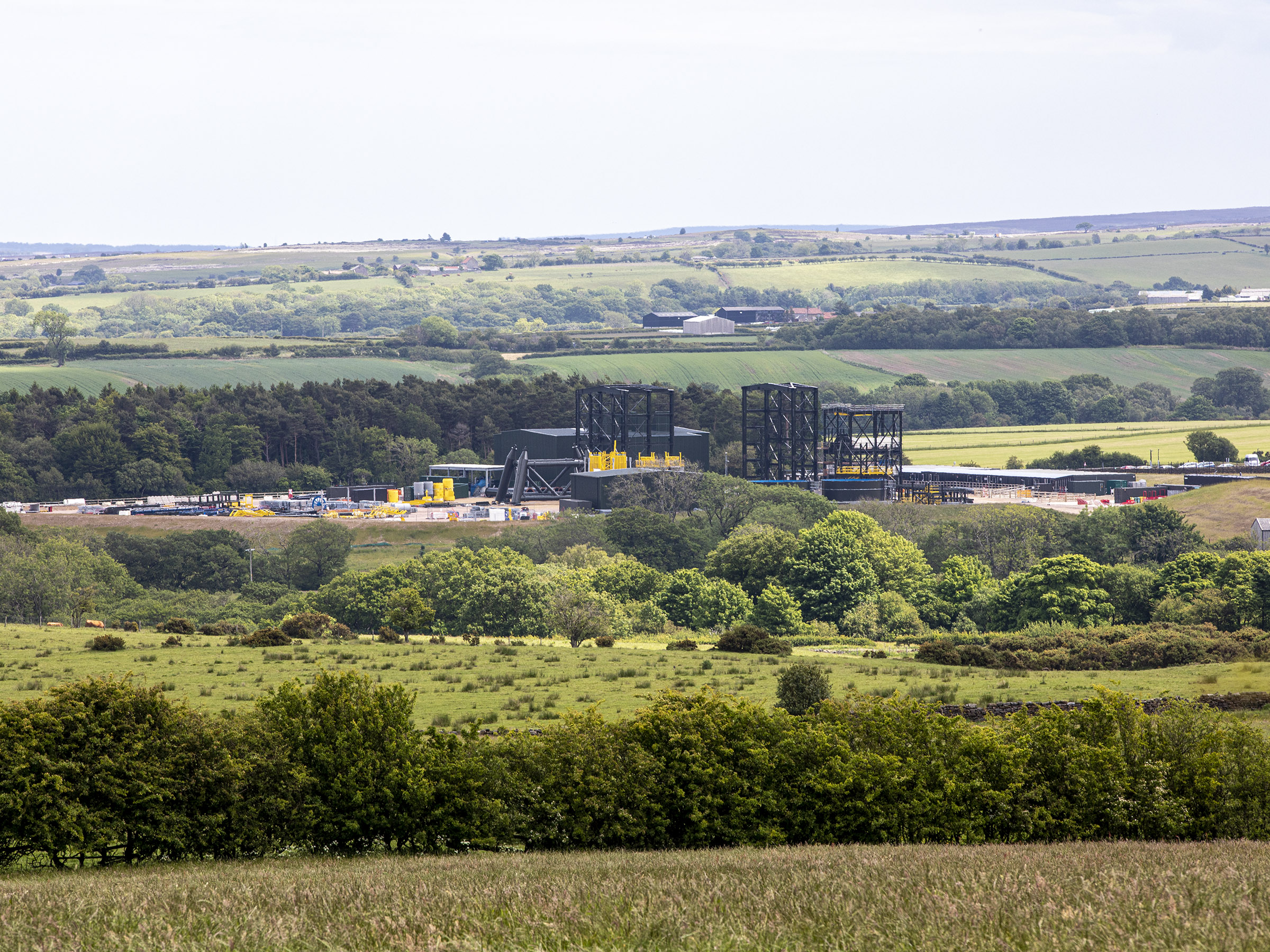 Lockwood Beck site; the site for one of the shafts on the Woodsmith Mine Tunnel